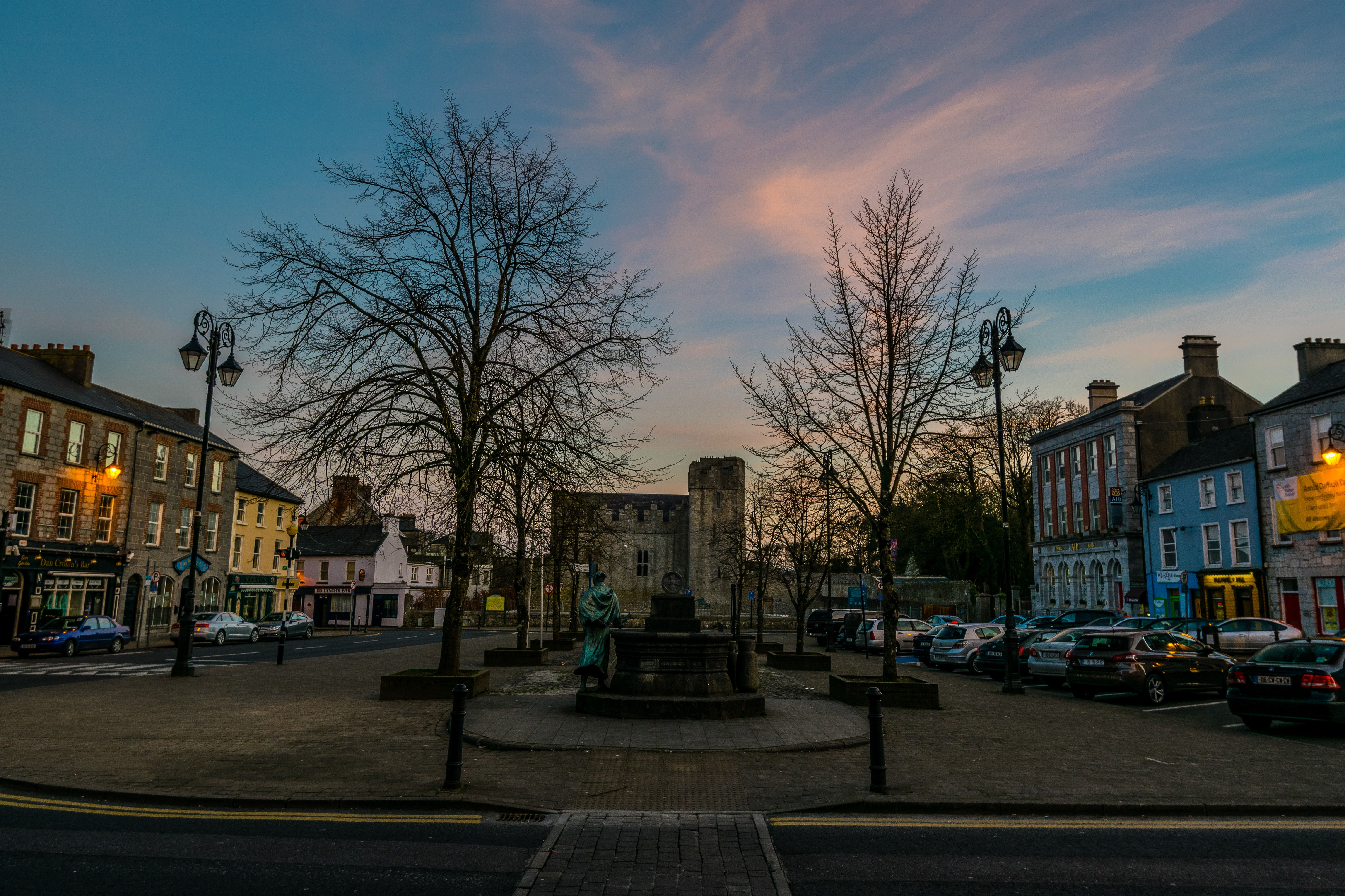 Desmond Hall - Great Hall Medieval Castle Complex Castle Demesne